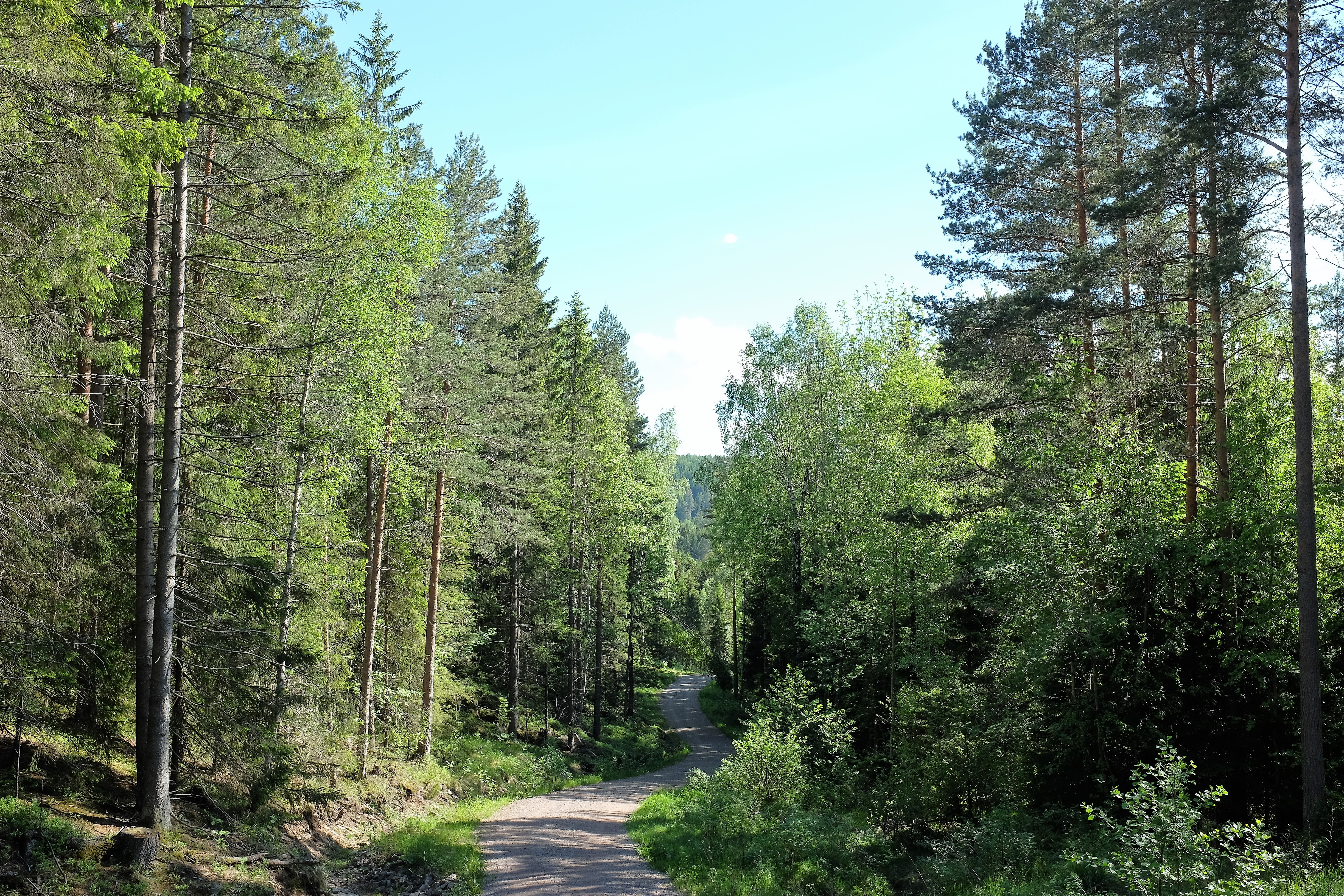 This road in Maridalen is popular for cycling and walks in the summer time, and for skiing in the winter season. Maridalen protected Landscape in Oslo, Norway. The landscape conservation area is part of Nordmarka, and forms a wide valley in the north of Oslo municipality with the Maridalsvatnet lake as a natural center. The area is a well-defined landscape where the mosaics of forests, fields, meadows, pastures, river runs and water form a whole landscape. This provides a rich diversity of vegetation types. Both agricultural and forestry operations are carried out in the valley, which has 15 farms. The trail and trail network is well established, and it is easy to get there from the fjord to the top. There is also a natural and cultural trail in the area. Maridalsvannet is the main source of drinking water for Oslo. Source: Norwegian Environment Agency.